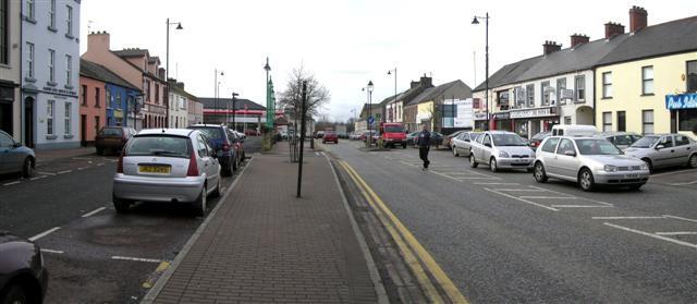 Limavady, Derry/Londonderry A quiet little town near the north of the Province.